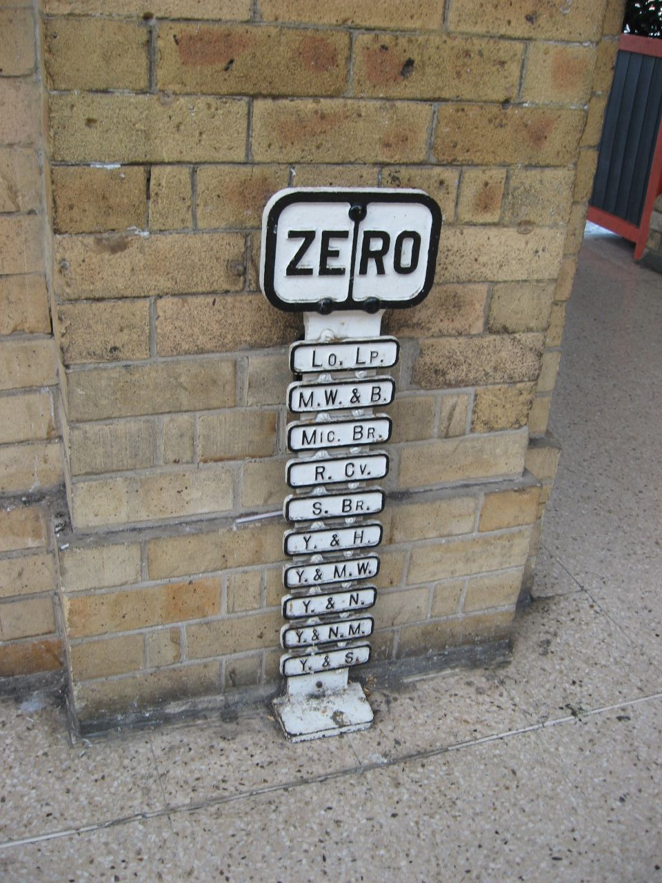 The replica zero mile post from York railway station